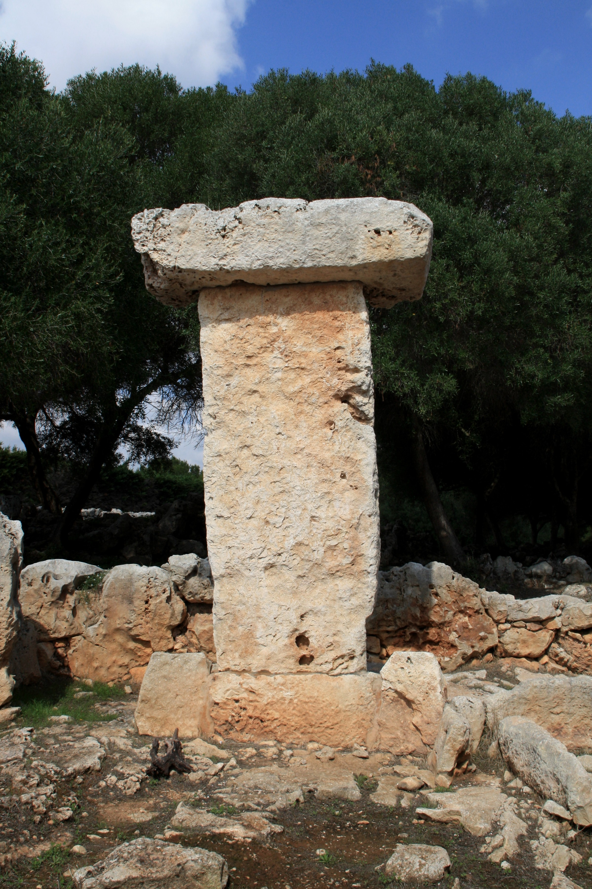 Taula from the archaeological site Binissafúllet, Minorca.